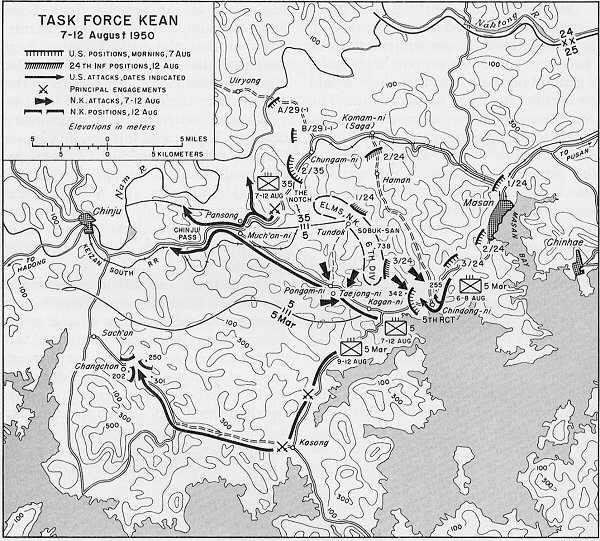 Map of the Task Force Kean Counteroffensive, Korean War